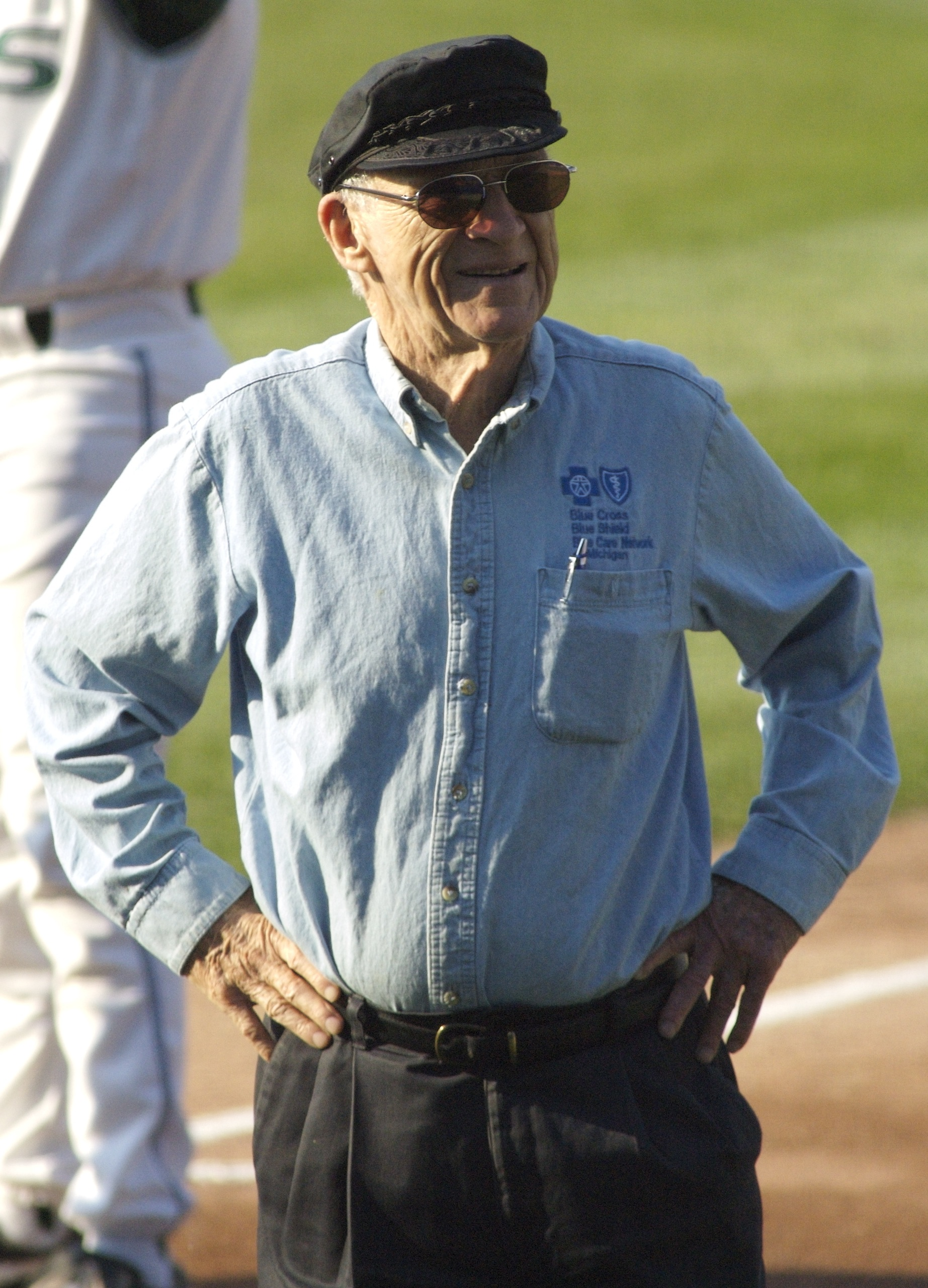 Original caption: "Fort Wayne @ Southwest Michigan 062906"